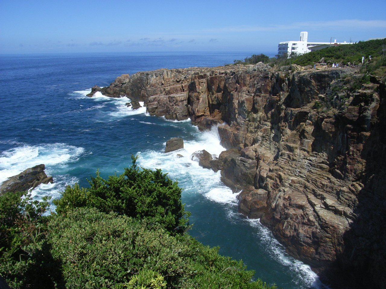 Sandanbeki in Shirahama, Wakayama prefecture, Japan